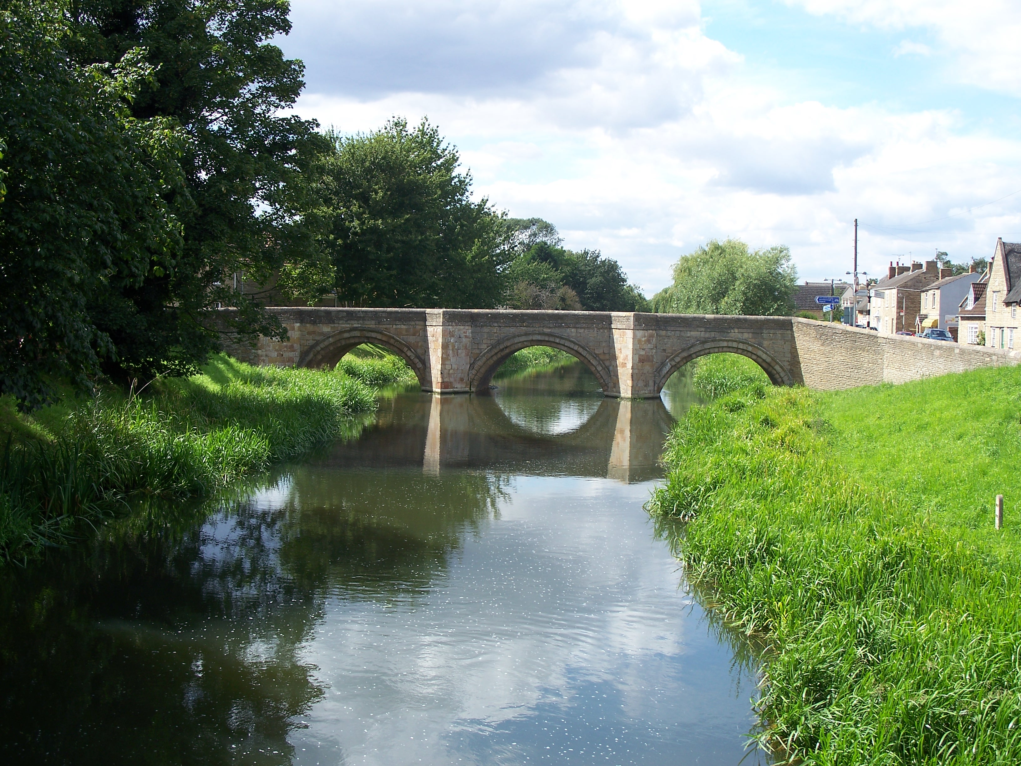 The old bridge across the River Welland, England, between Deeping Gate and Deeping St James, photo taken by user:lofty